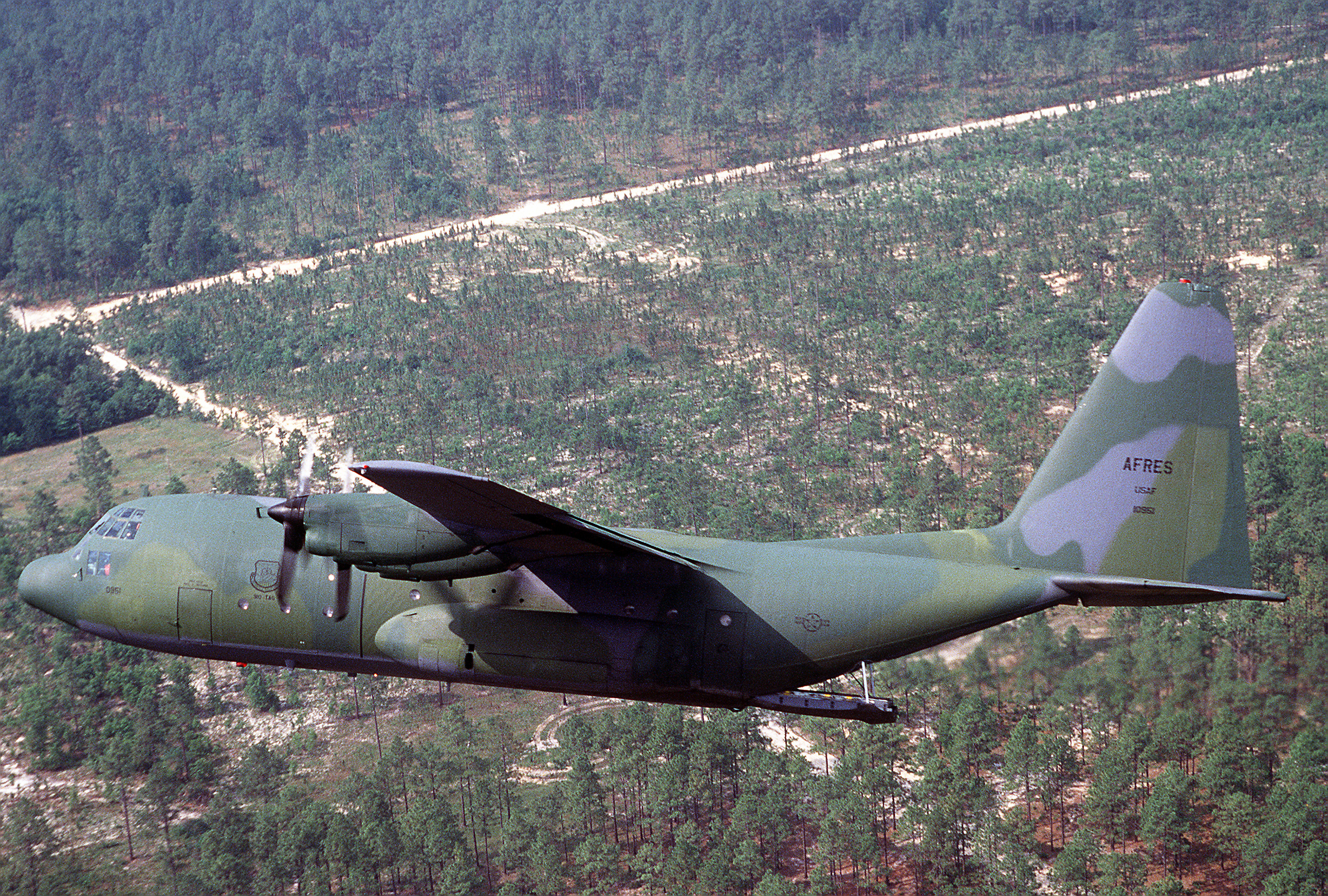 An Air Force Reserve C-130 Hercules transport aircraft approaches a drop zone during the Airlift Rodeo '90 container delivery system phase. Airlift Rodeo is an annual airdrop competition that tests the flight and ground skills of Military Airlift Command aircrews as well as foreign teams.